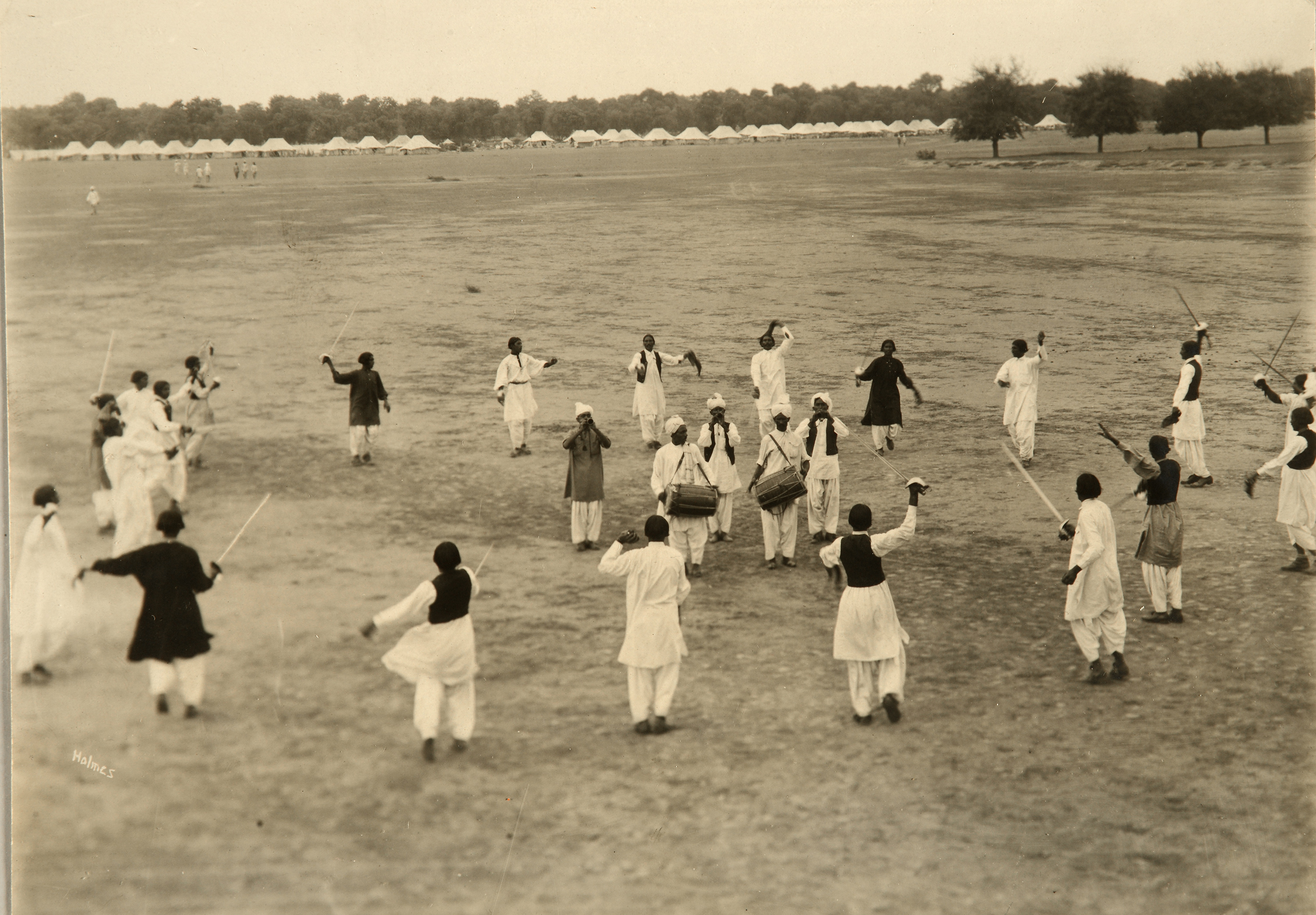 Description: Pathans, Khattack dance Location: North west frontier of India Date: 1933-1935 Our catalogue reference: Part of CN 4/8 This image is part of the War Office photographic collection held at The National Archives. Feel free to share it within the spirit of the Commons Please use the comments section below the pictures to share any information you have about the people, places or events shown. For high quality reproductions of any item from our collection please contact our image library